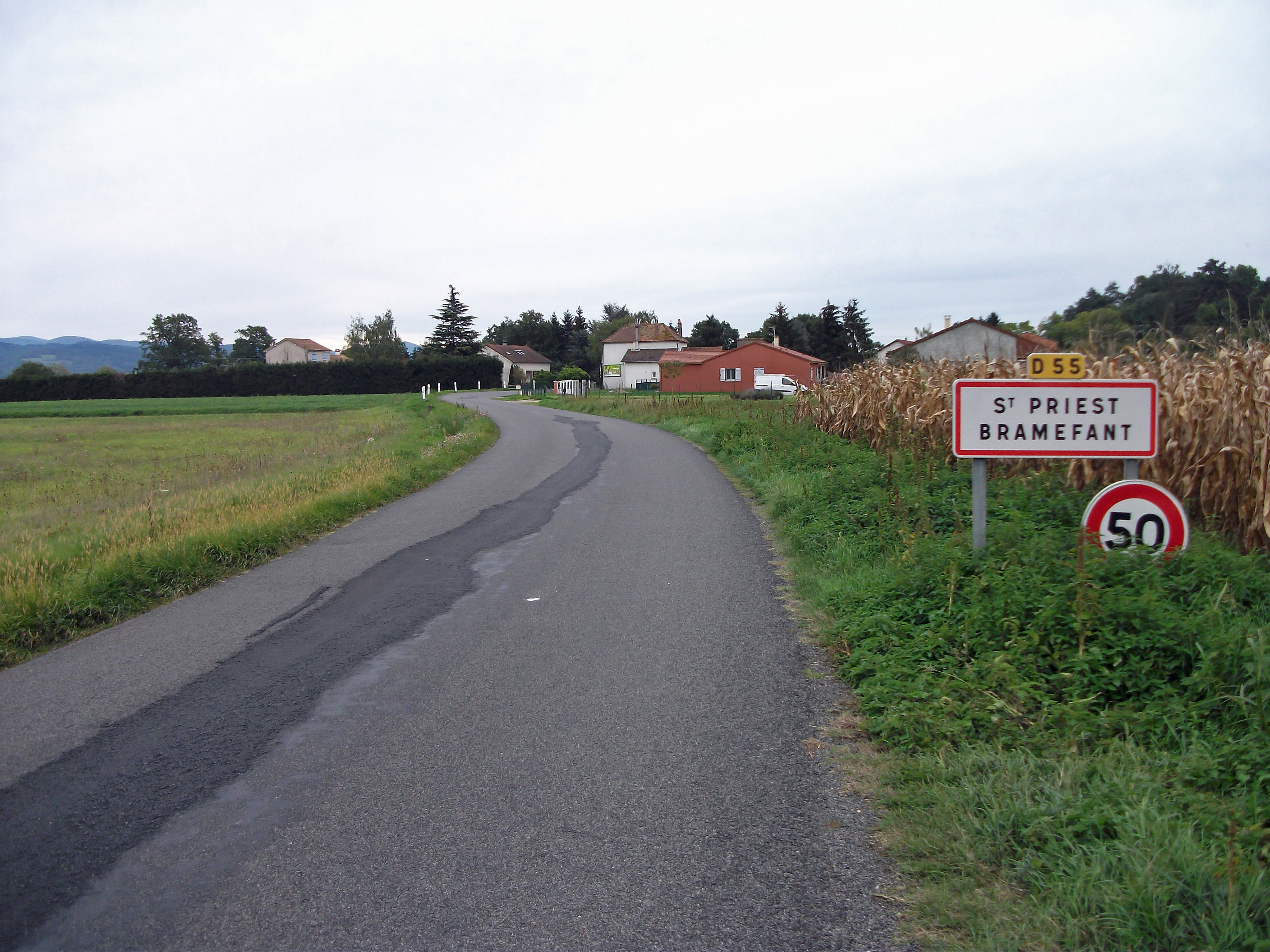 Entrance of Saint-Priest-Bramefant by departmental road 55 [9173]